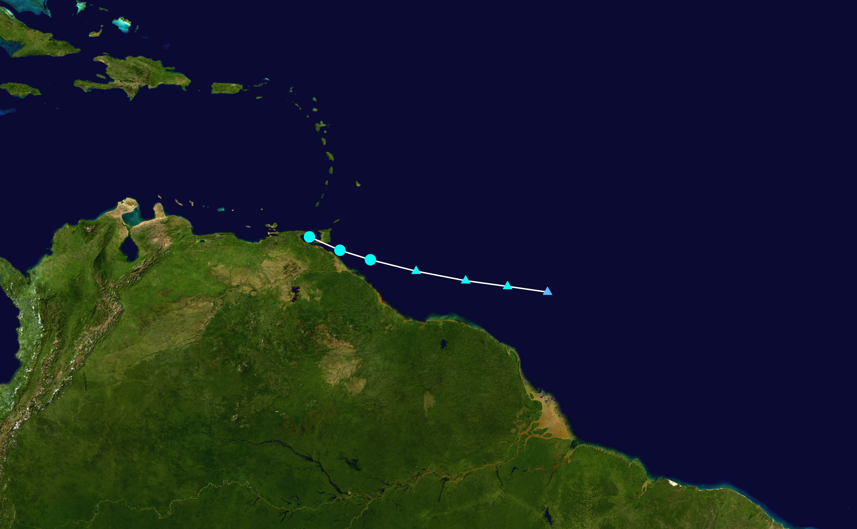 Track map of Tropical Storm Bret of the 2017 Atlantic hurricane season. The points show the location of the storm at 6-hour intervals. The colour represents the storm's maximum sustained wind speeds as classified in the Saffir–Simpson scale (see below), and the shape of the data points represent the nature of the storm, according to the legend below. Saffir–Simpson scale Tropical depression≤38 mph≤62 km/h Category 3111–129 mph178–208 km/h Tropical storm39–73 mph63–118 km/h Category 4130–156 mph209–251 km/h Category 174–95 mph119–153 km/h Category 5≥157 mph≥252 km/h Category 296–110 mph154–177 km/h Unknown Storm type Tropical cyclone Subtropical cyclone Extratropical cyclone / Remnant low / Tropical disturbance / Monsoon depression